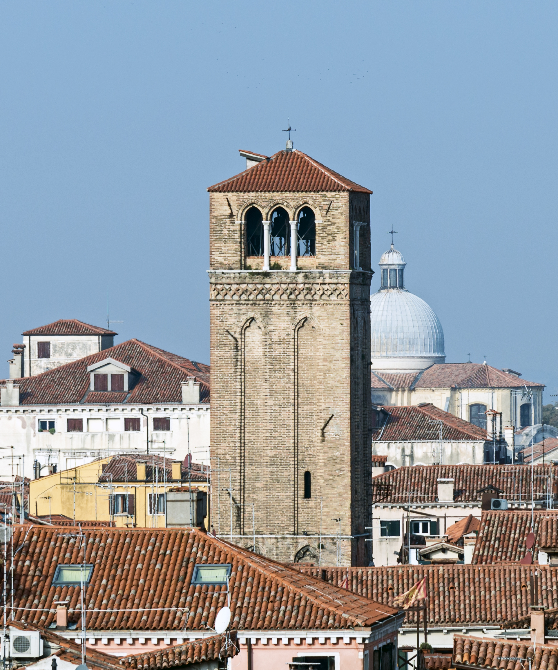 San Cassiano, Venice - The 13th-century romanesque bell tower with a bell-ring that opens on the outside with a trifora on the side.